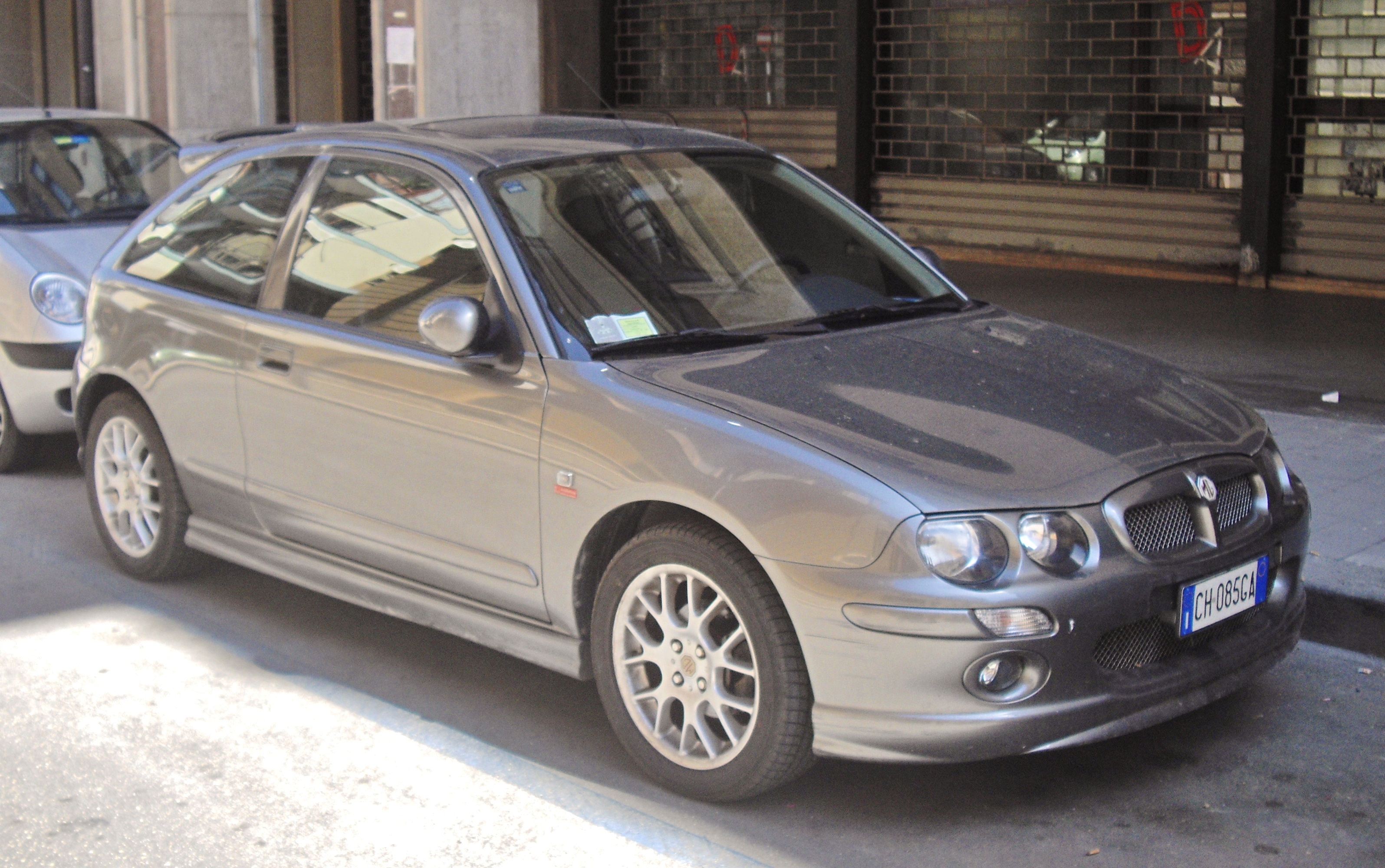 MG ZR 3door in Avellino front